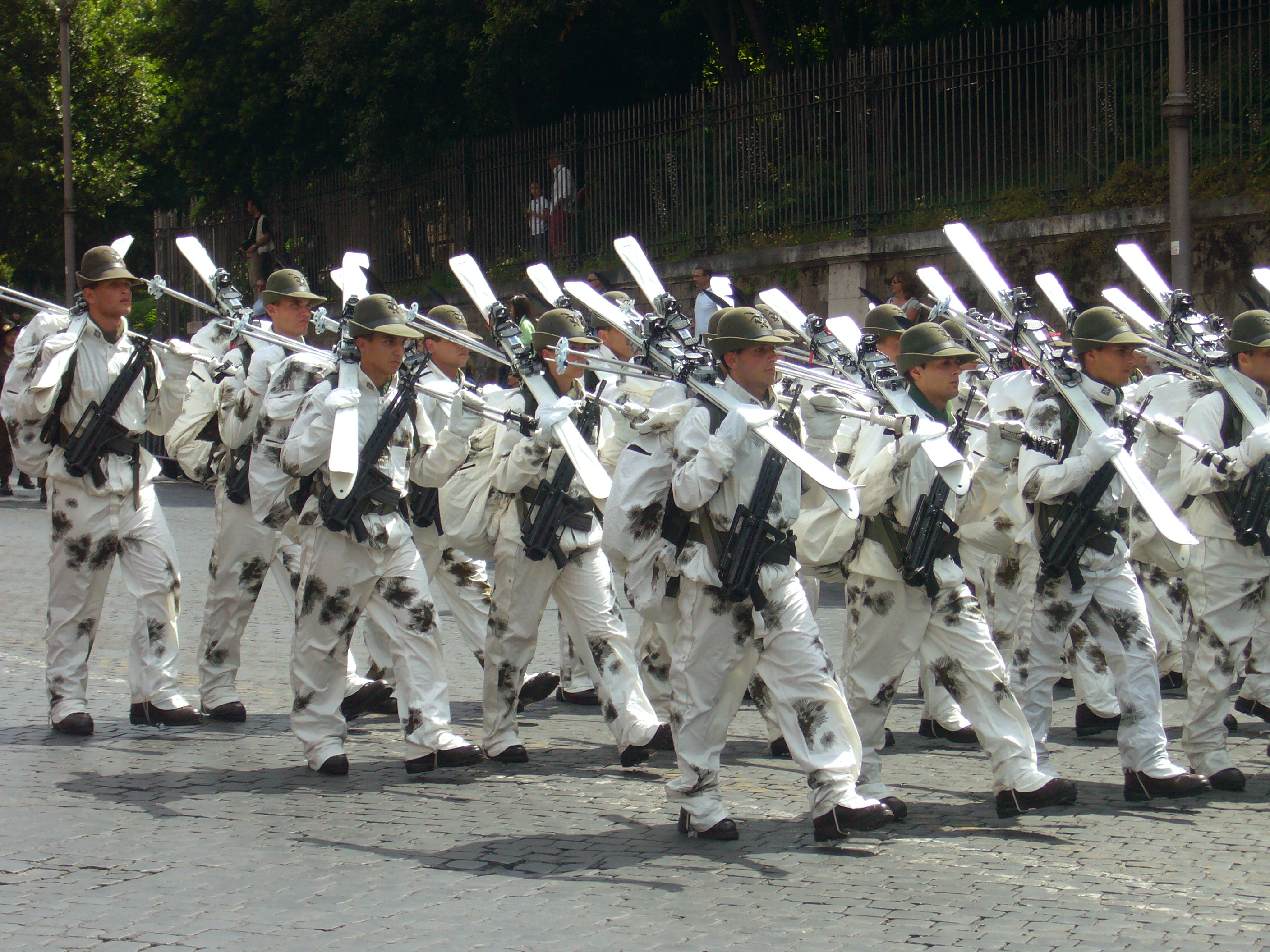 Skiers Alpini (mountain warfare soldiers) of the 8 Alpini Regiment on parade for the 2010 Republic Day. Weapon: Beretta SC 70/90